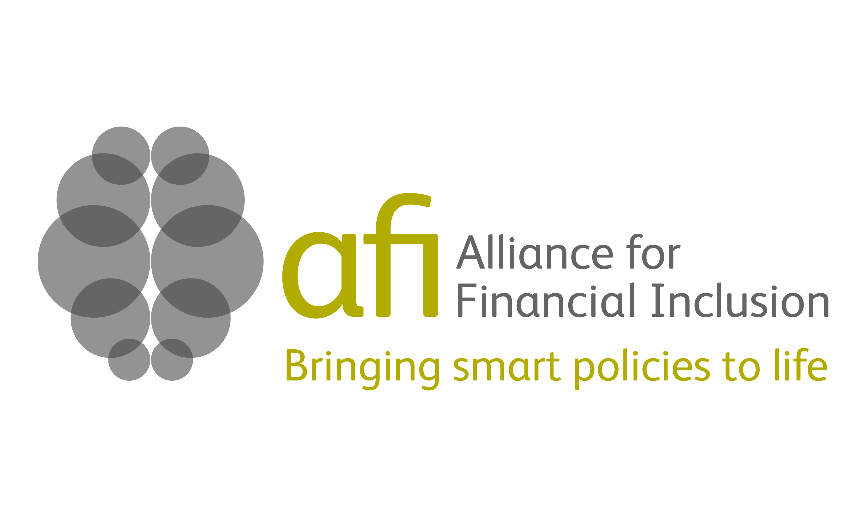 The Official Logo of the Alliance for Financial Inclusion